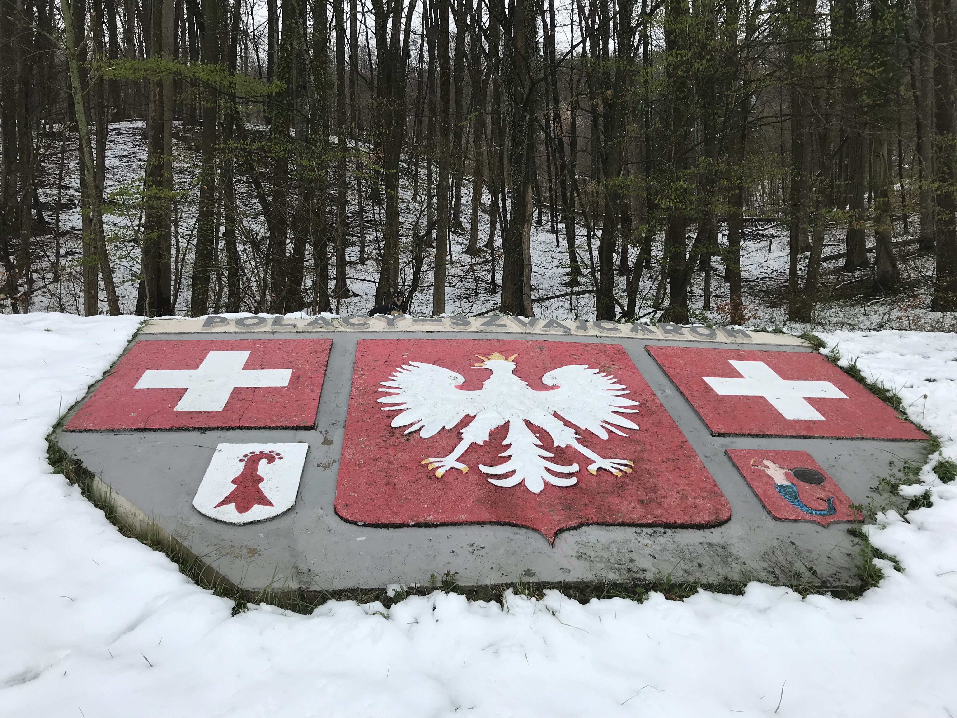 Monument in remembrance of the polish soldiers, those who are detained into switzerland during the second world war.